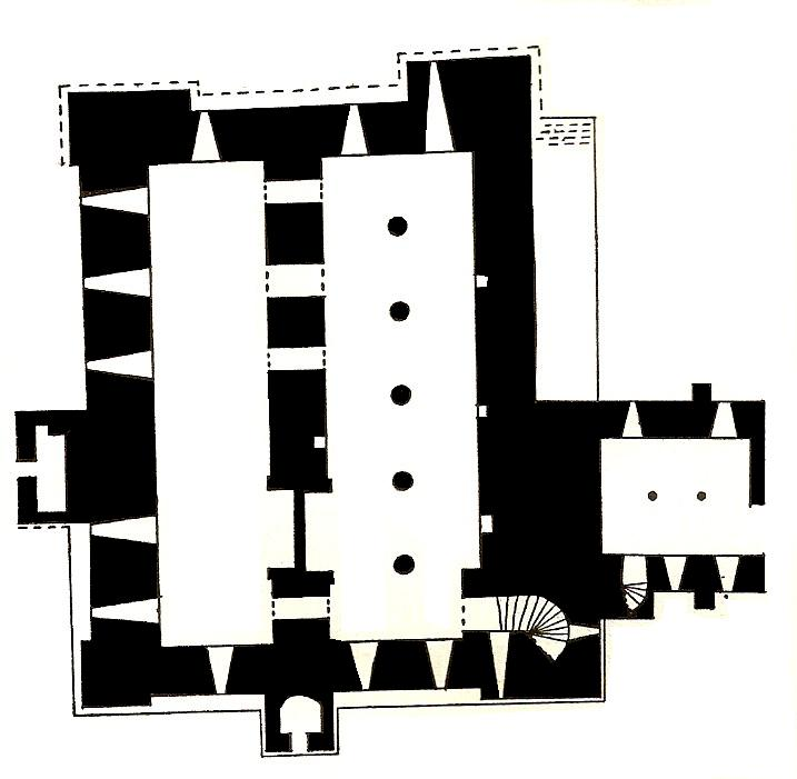 Plan of Middleham Castle keep